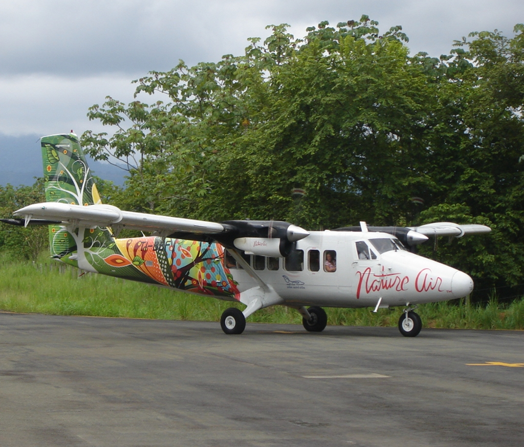 Nature Air TI-BBF (De Havilland Canada DHC-6-300 Twin Otter/VistaLiner) arriving at MRQP